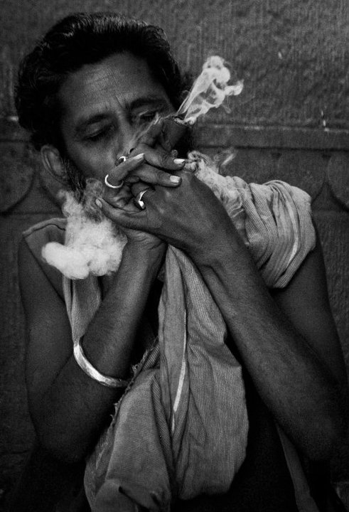 This is an image of a Hindu monk in Benares, India smoking "chillum"